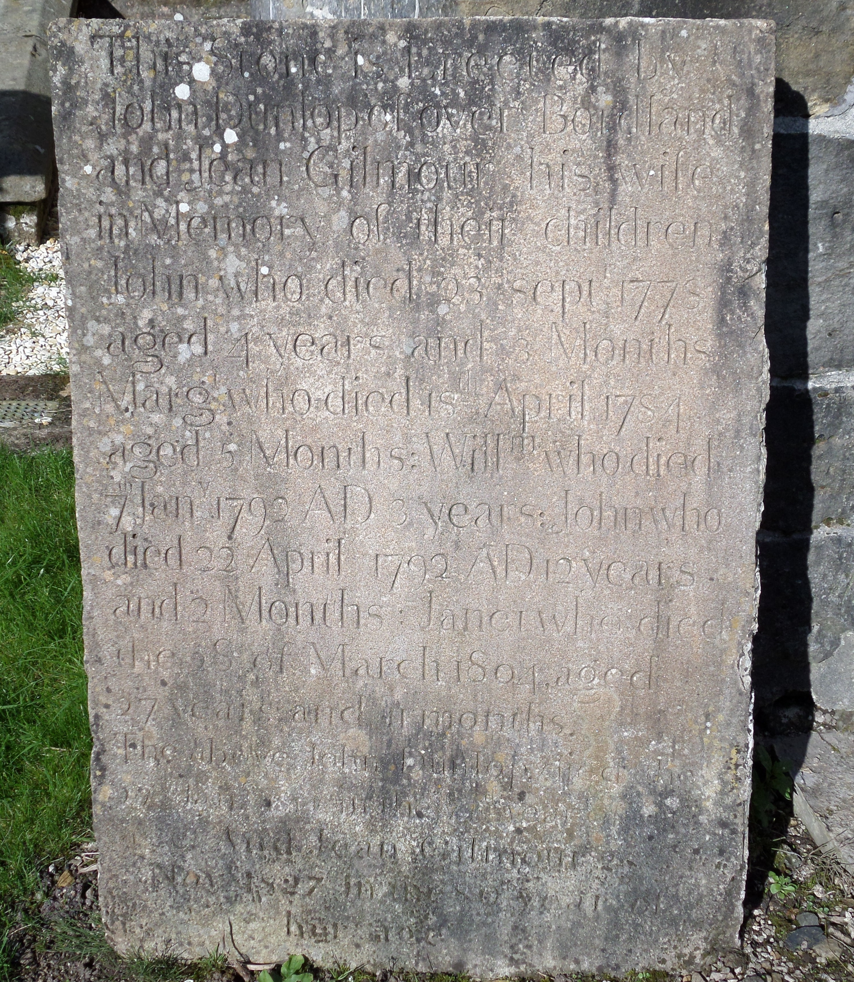 John Dunlop and Jean Gilmour's family memorial, Dunlop, East Ayrshire, Scotland. They lived at Over Borland.